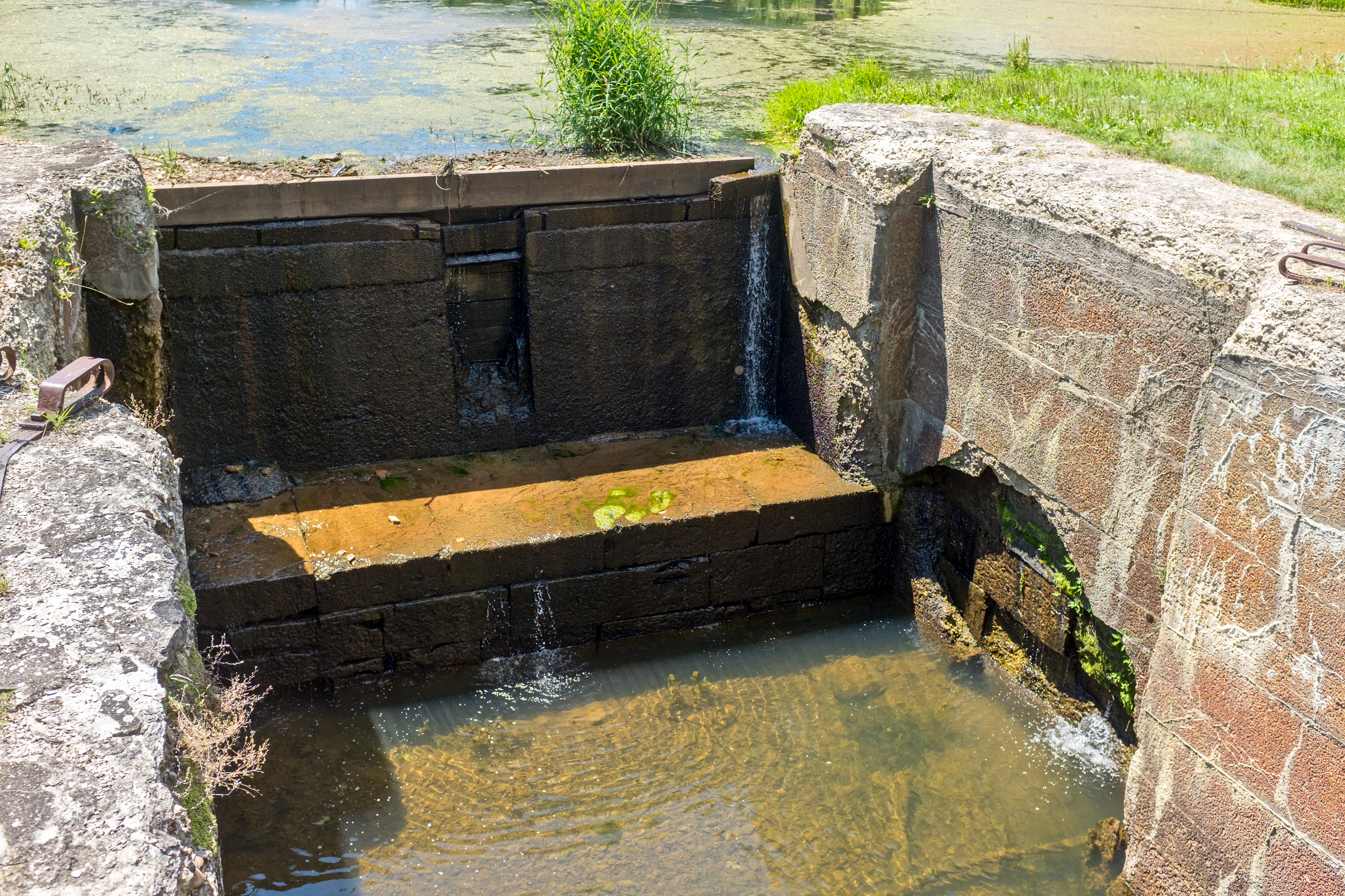 Detail of Lock 70 upper pocket. This is a composite lock, so it was lined with concrete. The concrete has fallen partially, showing the stonework behind it. Also this is not the original gate. Note that the gates originally were below the sill wall, typical of the 1830 redesign of the locks.